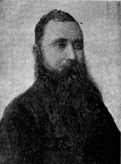 Portrait of Thomas Fergus from NZETC.